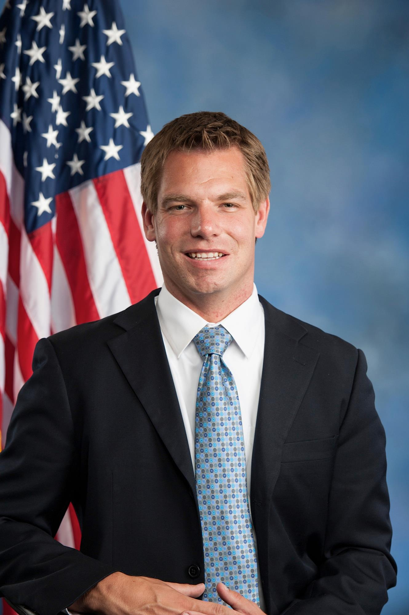 Official portrait of Congressman Eric Swalwell (D-CA).